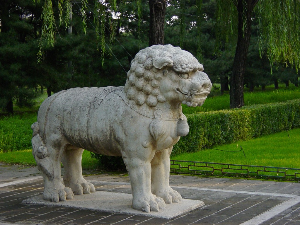 Standing Ming Dynasty Lion. Image by User:Leonard G. Also known as the northern form of the Nian